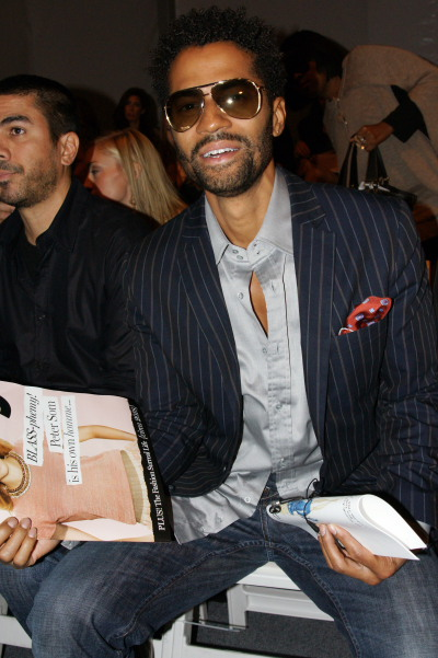 Eric Benet frontrow at NY Fashion Week